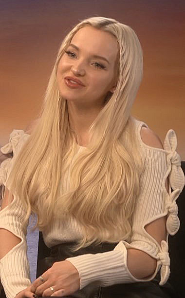 Dove Cameron in October 2017